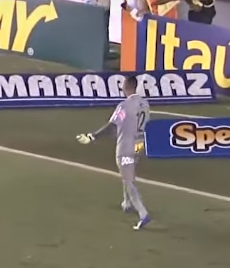 Santos FC's goalkeeper Vladimir in action against Palmeiras.